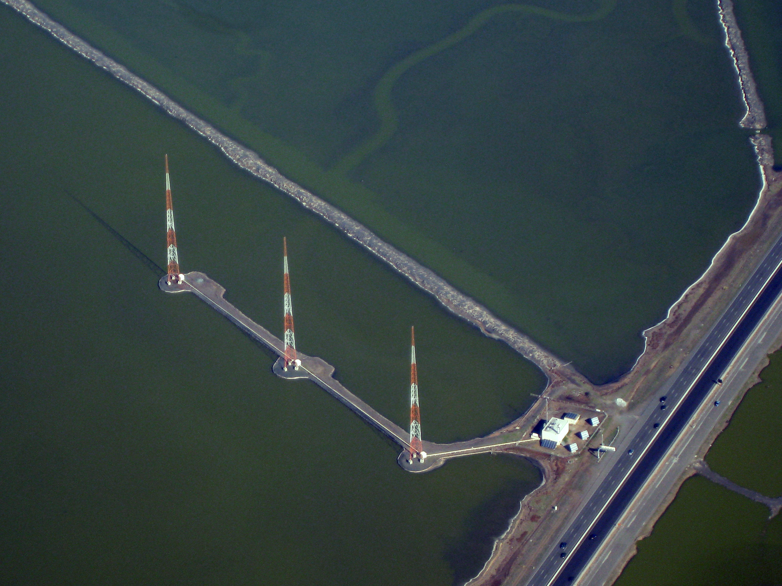 The three-tower transmitter of KGO/810am, which has been the Bay Area's most popular radio station for more than half a century. KGO's three towers alongside the causeway at the east end of the Dumbarton Bridge, are perfectly sited for AM radio, which travels best over the most conductive ground. There is no more conductive ground than salt water, and salt ponds like this one are the saltiest water and land on Earth. KGO transmits with 50,000 watts from towers 1/4 wavelength high, or about 250 feet. The three towers radiate a directional pattern with two large lobes , one to NNW, toward San Francisco and the other to the SSE toward San Jose. At night the signal reaches the whole West Coast by bouncing off the ionosphere. Its nulls between the lobes have the effect of minimizing signal toward the WSW, where there are unpopulated areas beyond the adjacent Bay Area (which still gets a good-enough signal), and toward the ENE, toward Schenectady, New York, where KGO protects WGY there — or did when the rules were created, back in the 1930s, and "clear channel" stations were protected at night. KGO by day covers a large part of California with fringe reception stretching from Eureka in the North nearly to the South Coast. Oh, and two of the three towers that stood here until 1987 were destroyed in the 1987 Loma Prieta earthquake. KGO used the remaining tower as a non-directional radiator until all three were rebuilt a year or two later.